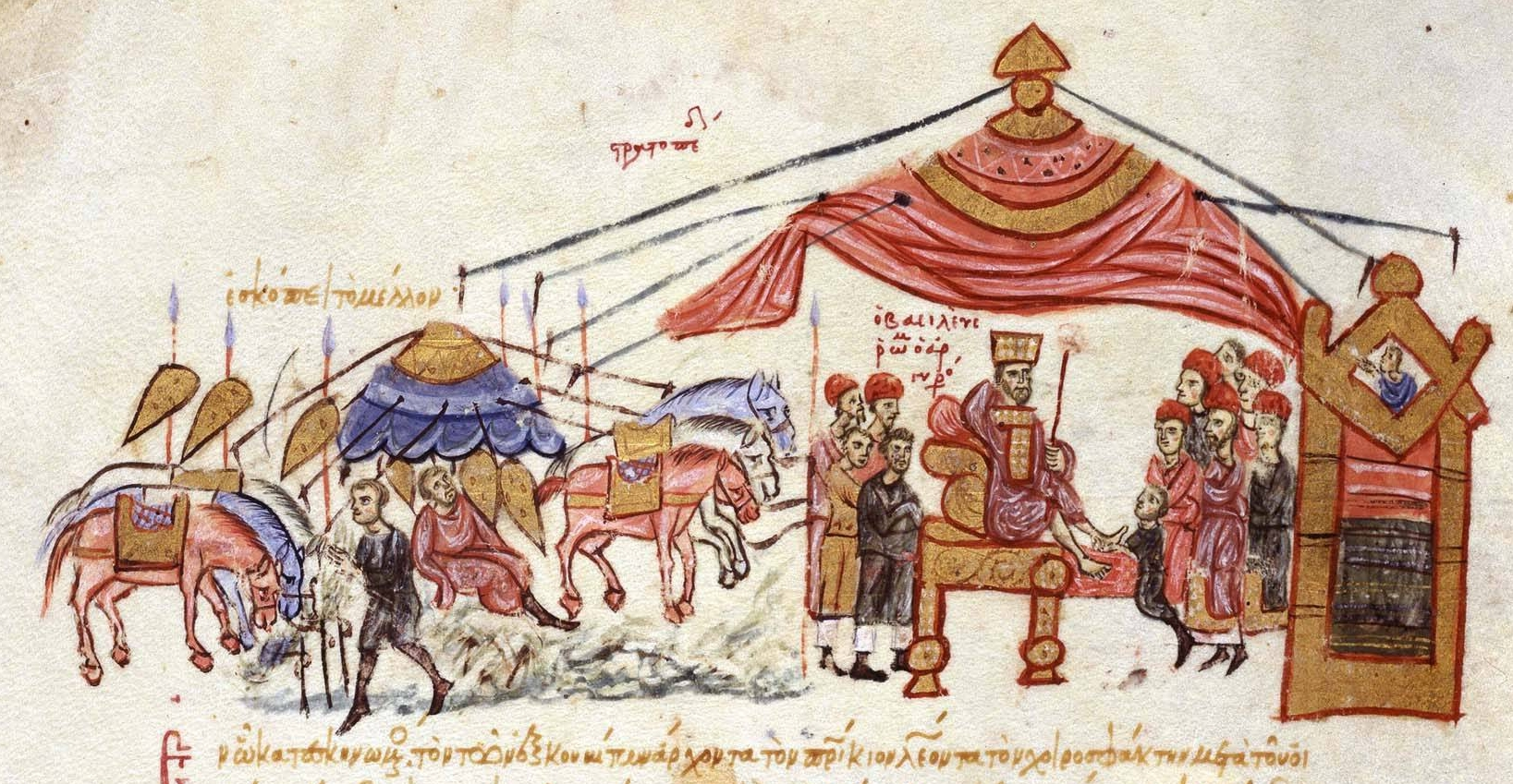 Emperor Romanos III Argyros encamps at Azaz